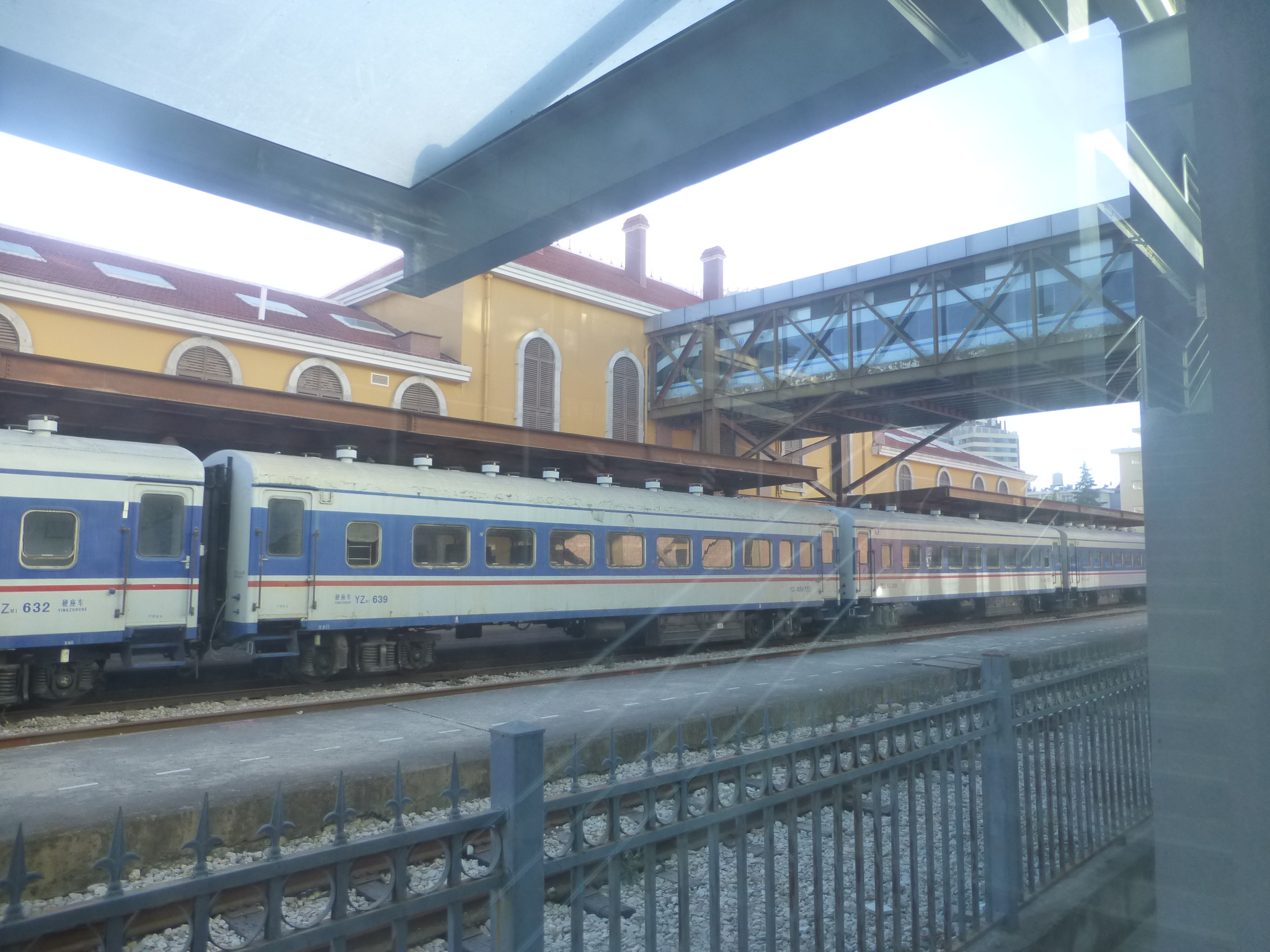 Tracks at Kunming North Railway Station. There are 3 parallel tracks between the station building proper and the museum trainshed, with an overpass (part of the museum) above them. They are still used for working trains on the narrow-gauge line, such as the twice-a-day commuter train..